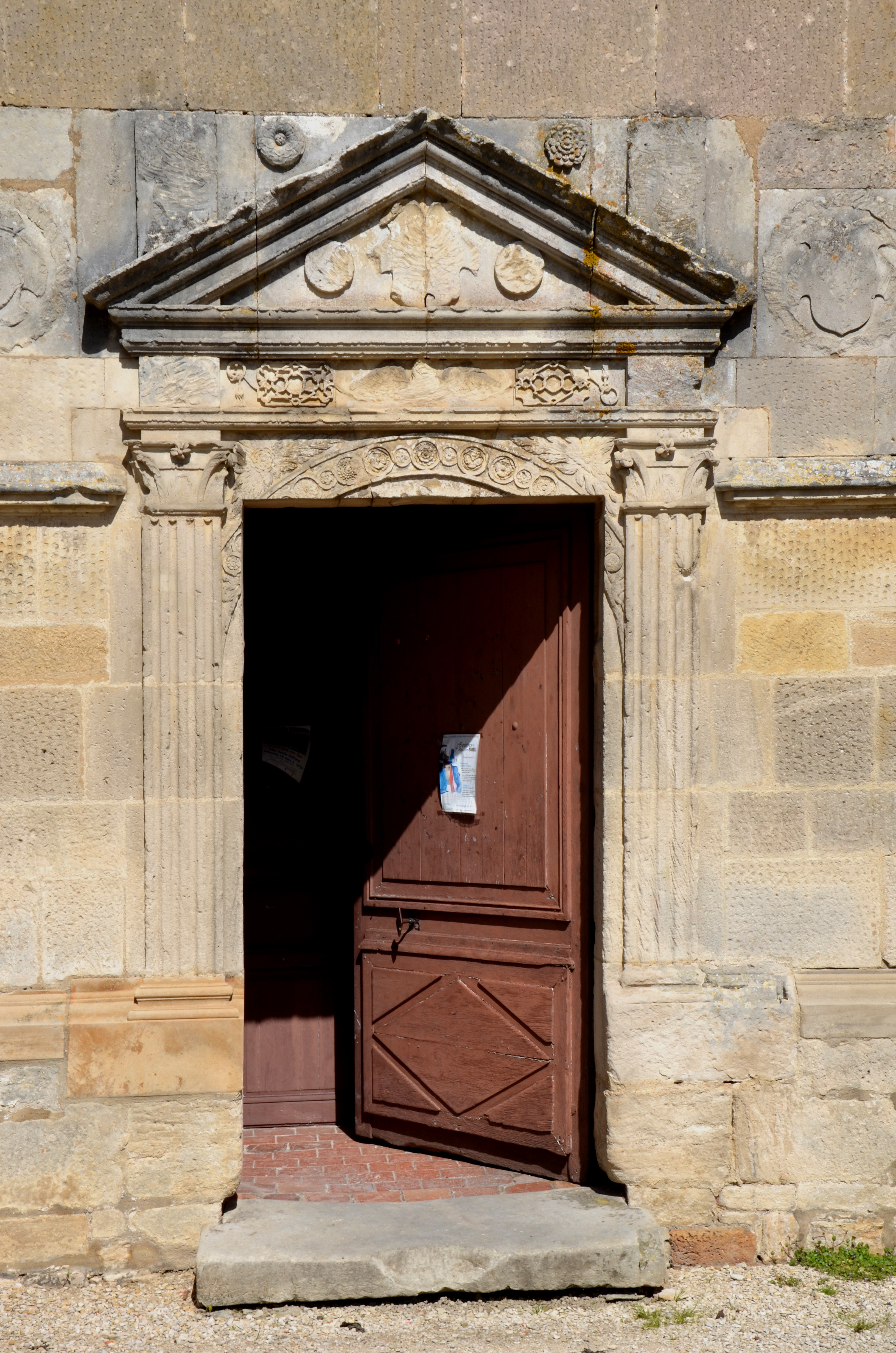 Church of Ceffonds, Haute-Marne, Champagne, France